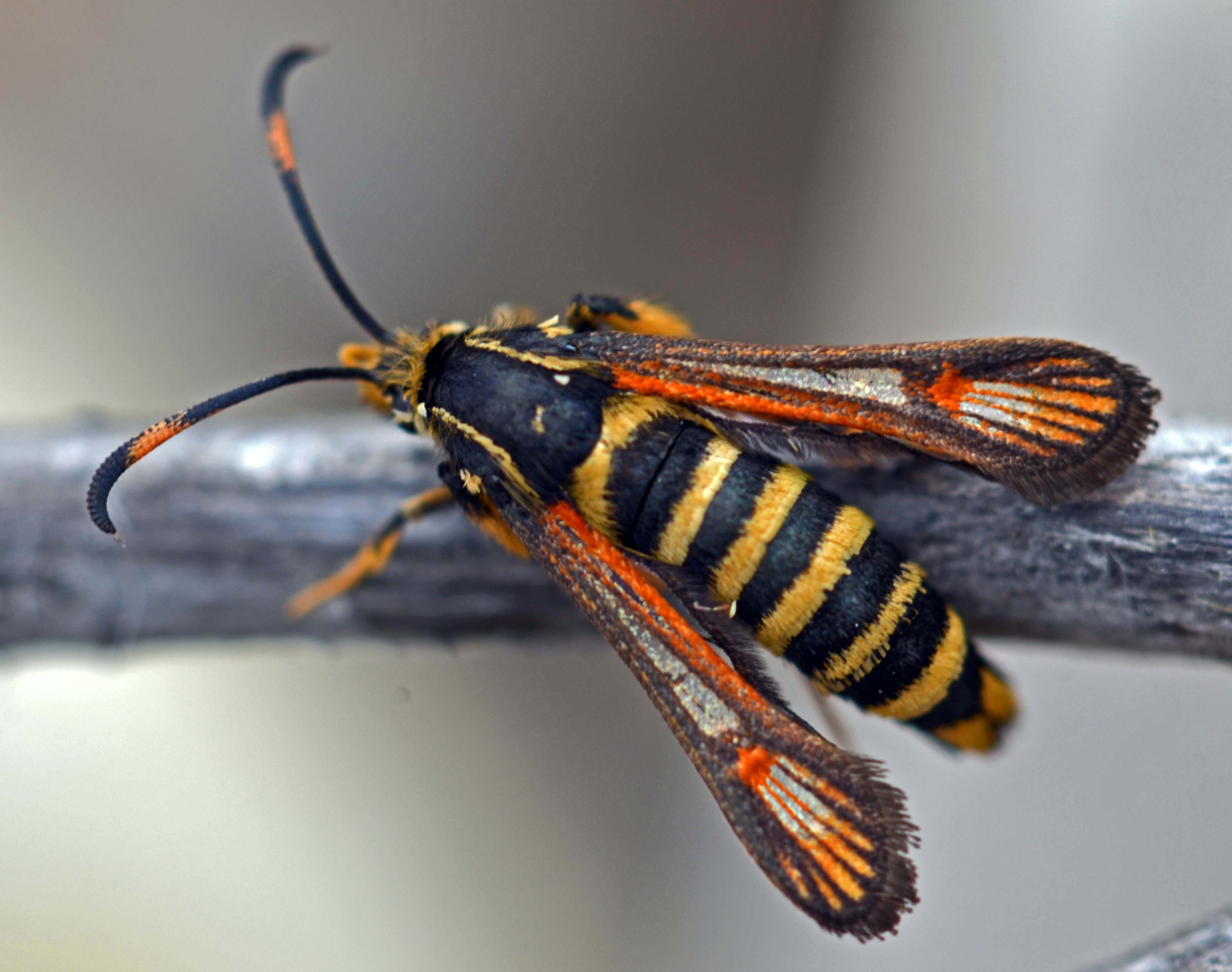 Bembecia ichneumoniformis ([Denis & Schiffermüller], 1775), (or closely related species?). photographed at the top of beach and near the cliff in Morgat (Finistère, Britain, west of France).